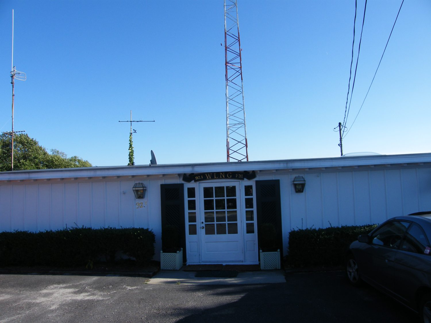 WLNG studio